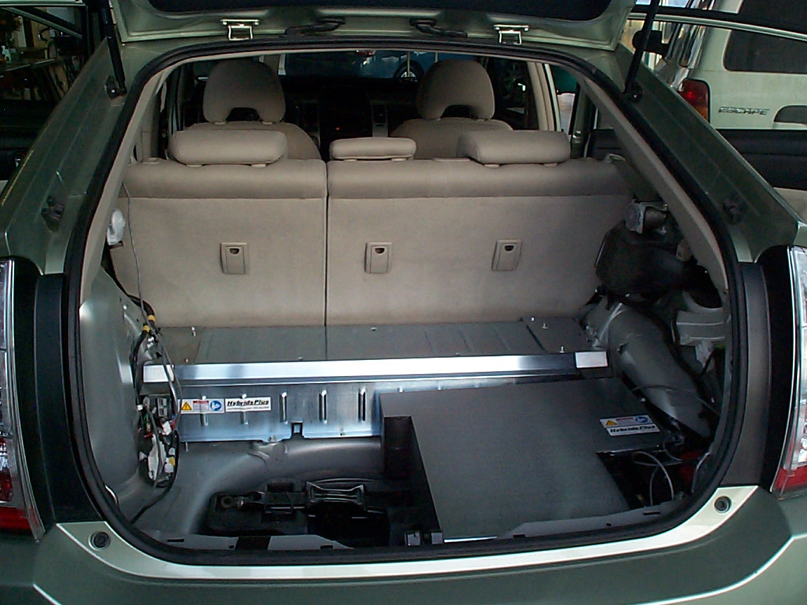 Hybrids Plus PRIUS PHEV battery packs I, Davide Andrea, took this picture